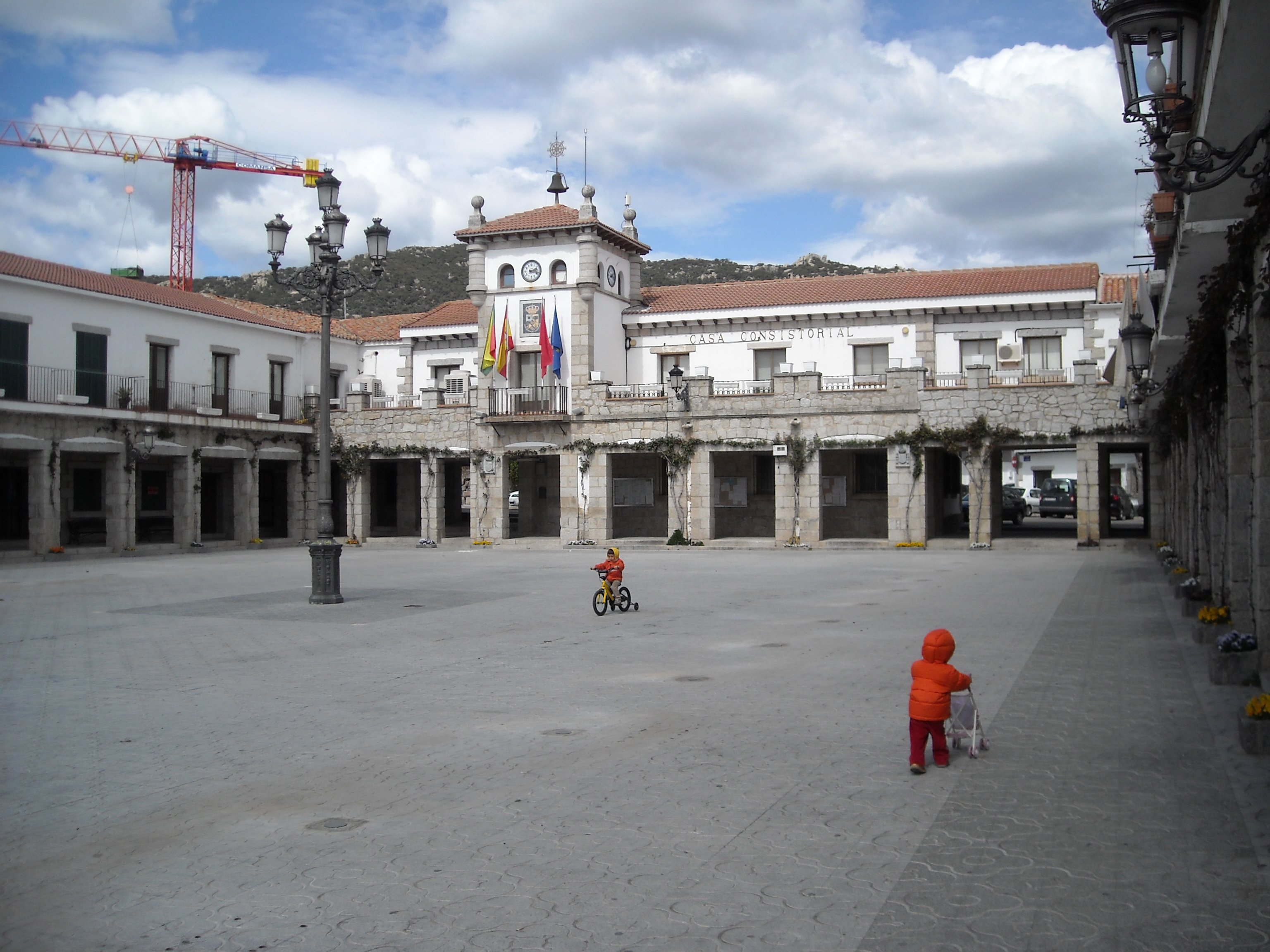 Plaza Mayor and Town Hall, Hoyo de Manzanares, Madrid, Spain